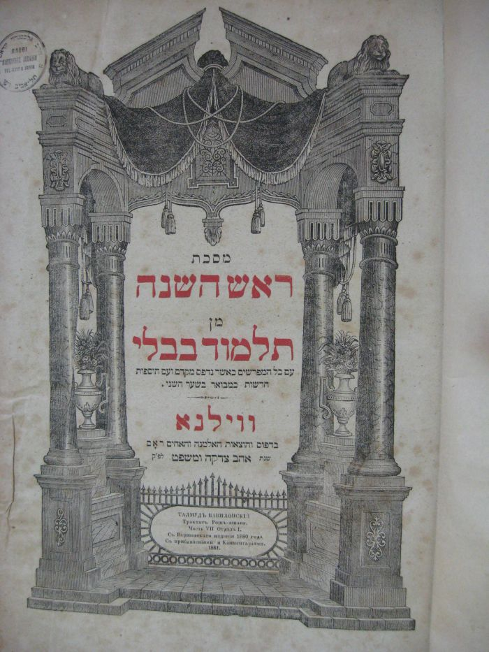 First page from Shas Vilna